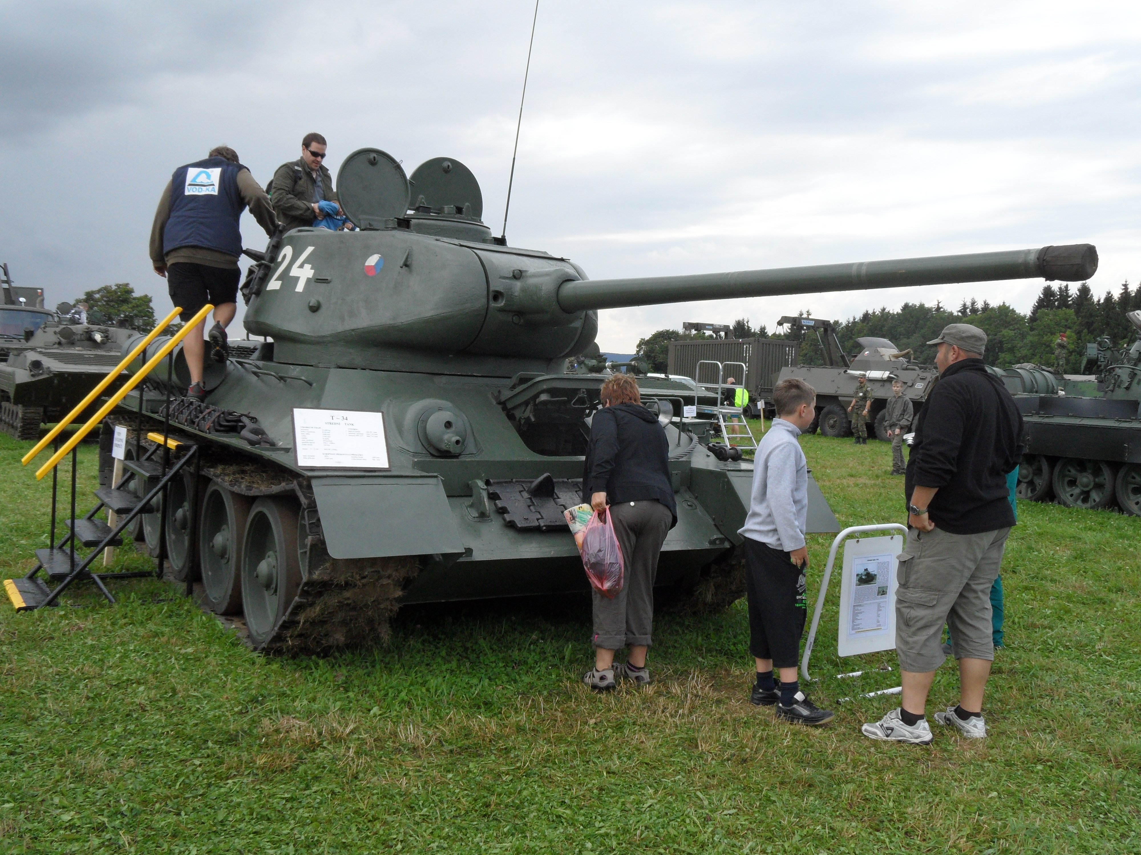 Akce Cihelna 2014 H12. Static Presentations: Tank T-34, Králíky, Ústí nad Orlicí District, the Czech Republic.